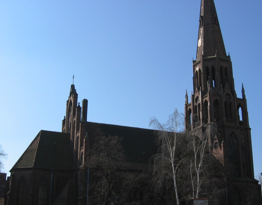 XV Century Church in Szczecin, Dabie (Poland) Author Rafal Konkolewski, all rights relased Feel free to replace it with something nicer